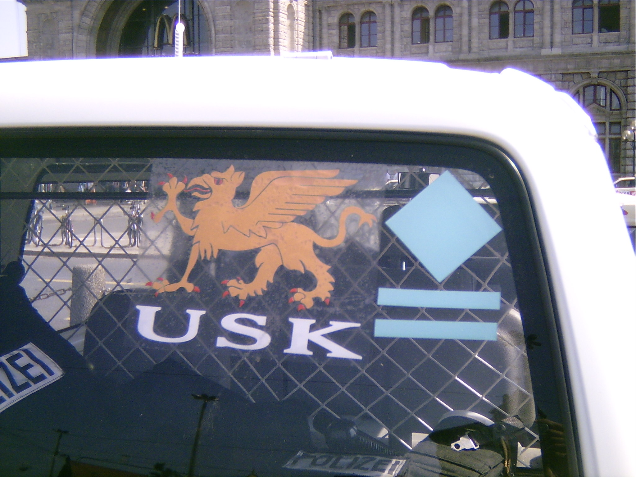 Figure of the Unterstützungskommando printed on a Bavarian Police patrol car